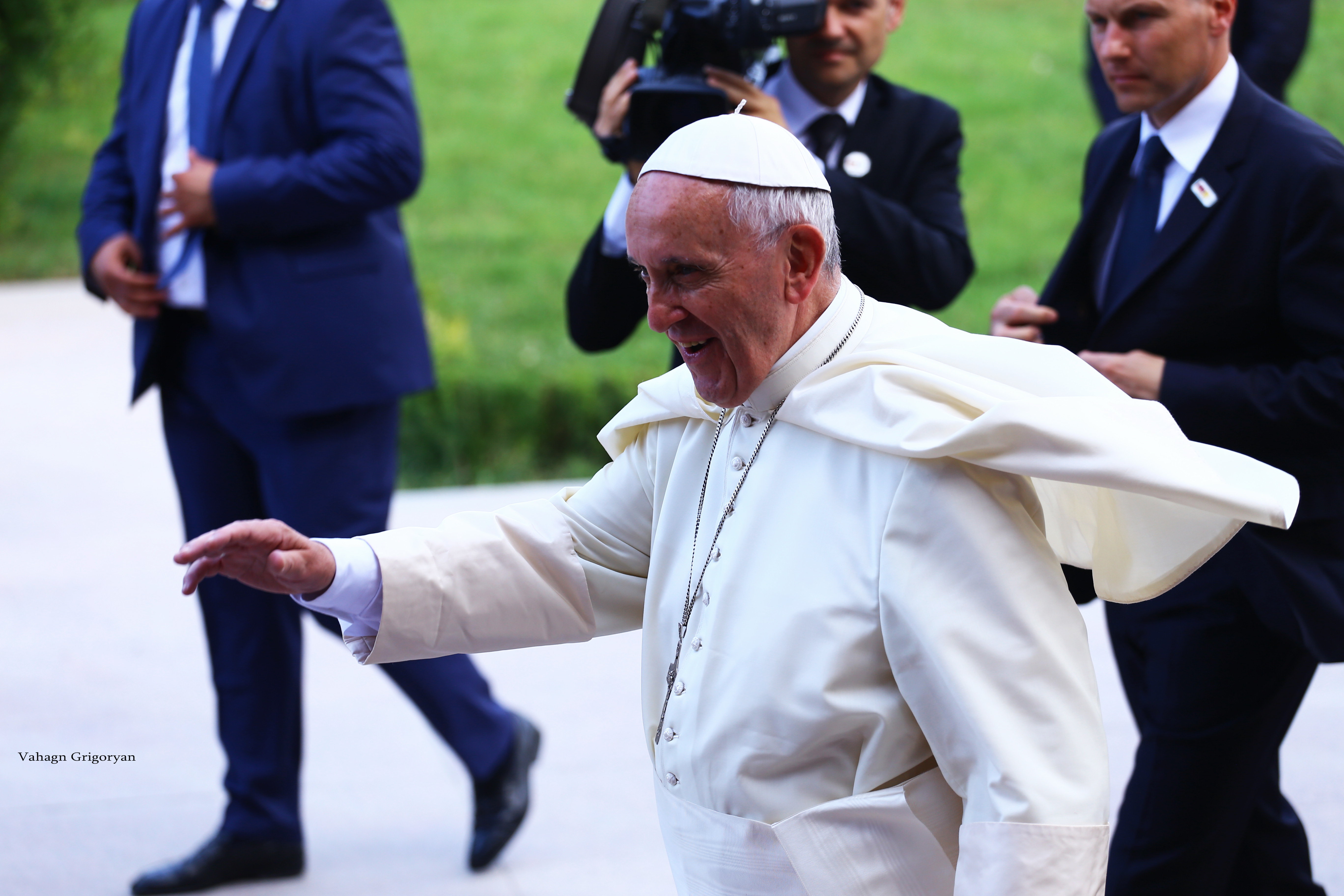 papa roma